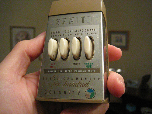 Zenith Space Commander 600, an early television remote control. The Space Commander 600 was available for color TV only. This particular design was offered between the years 1965 through 1972.